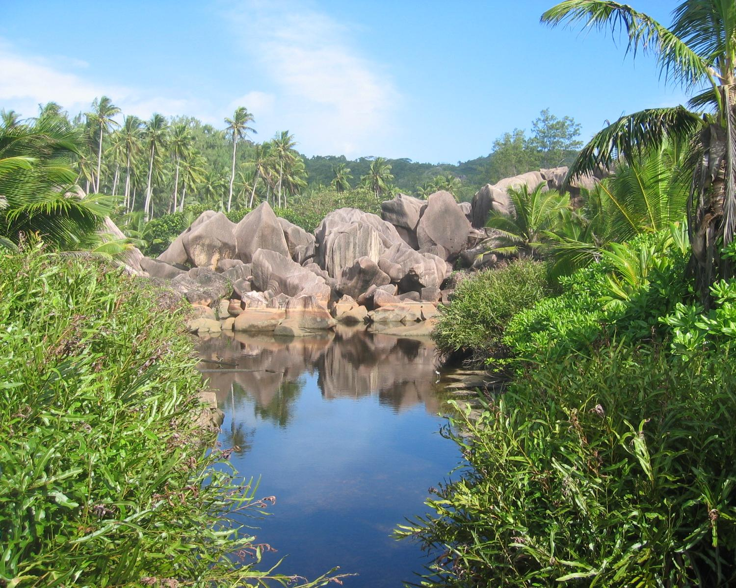 Landscape of the island of La Digue, Seychelles